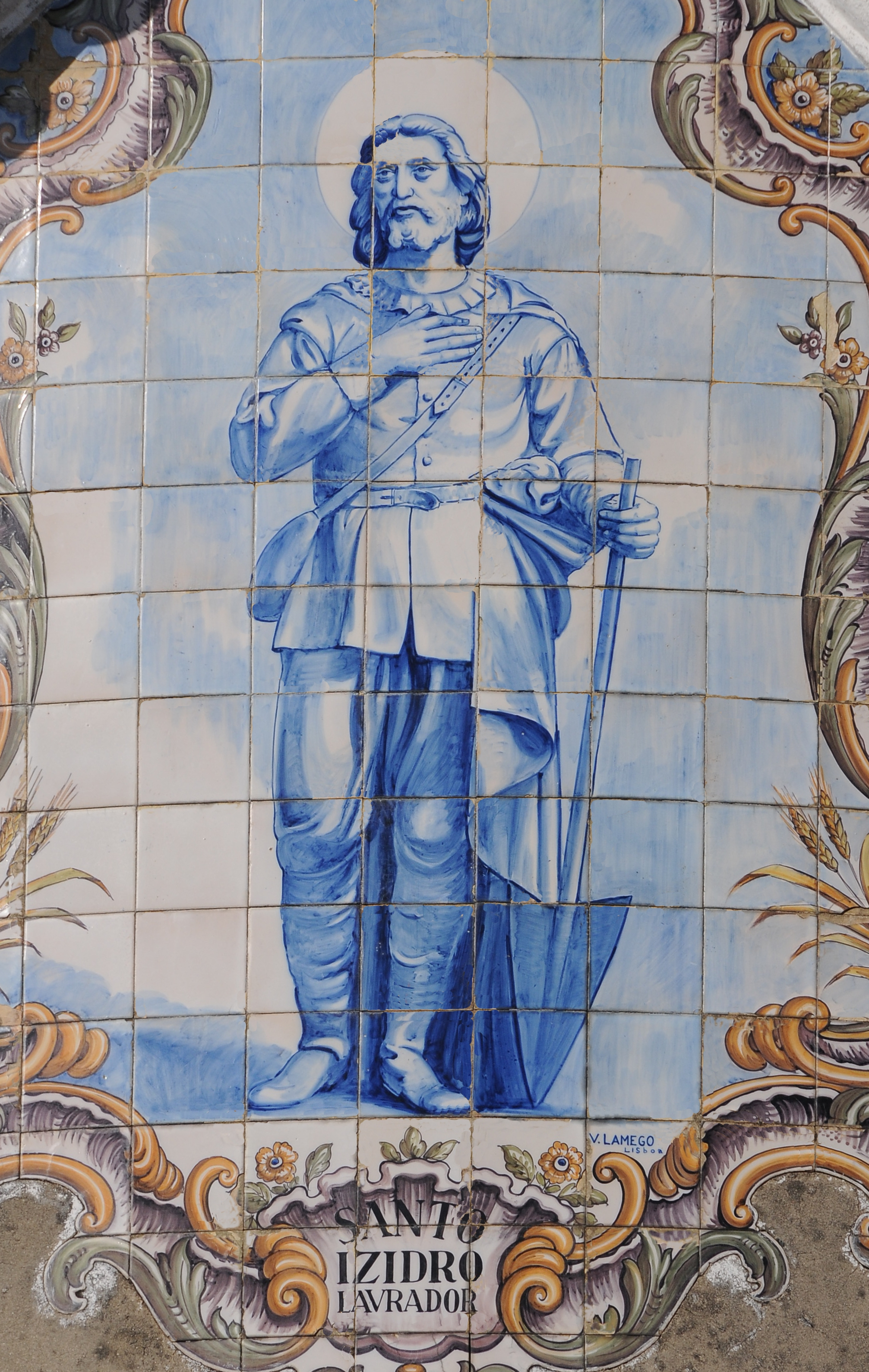 Azulejos of Saint Isidore the Laborer in Rua Abade Loureira, Braga, Portugal.